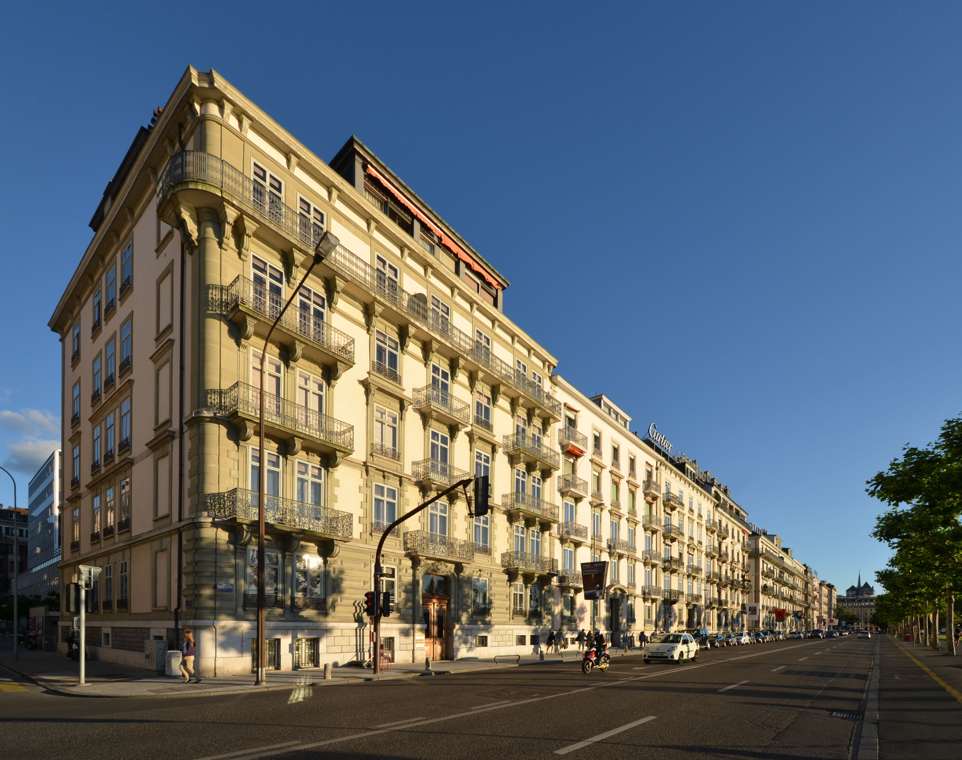 20 Quai Gustave Ador, Geneva, Switzerland